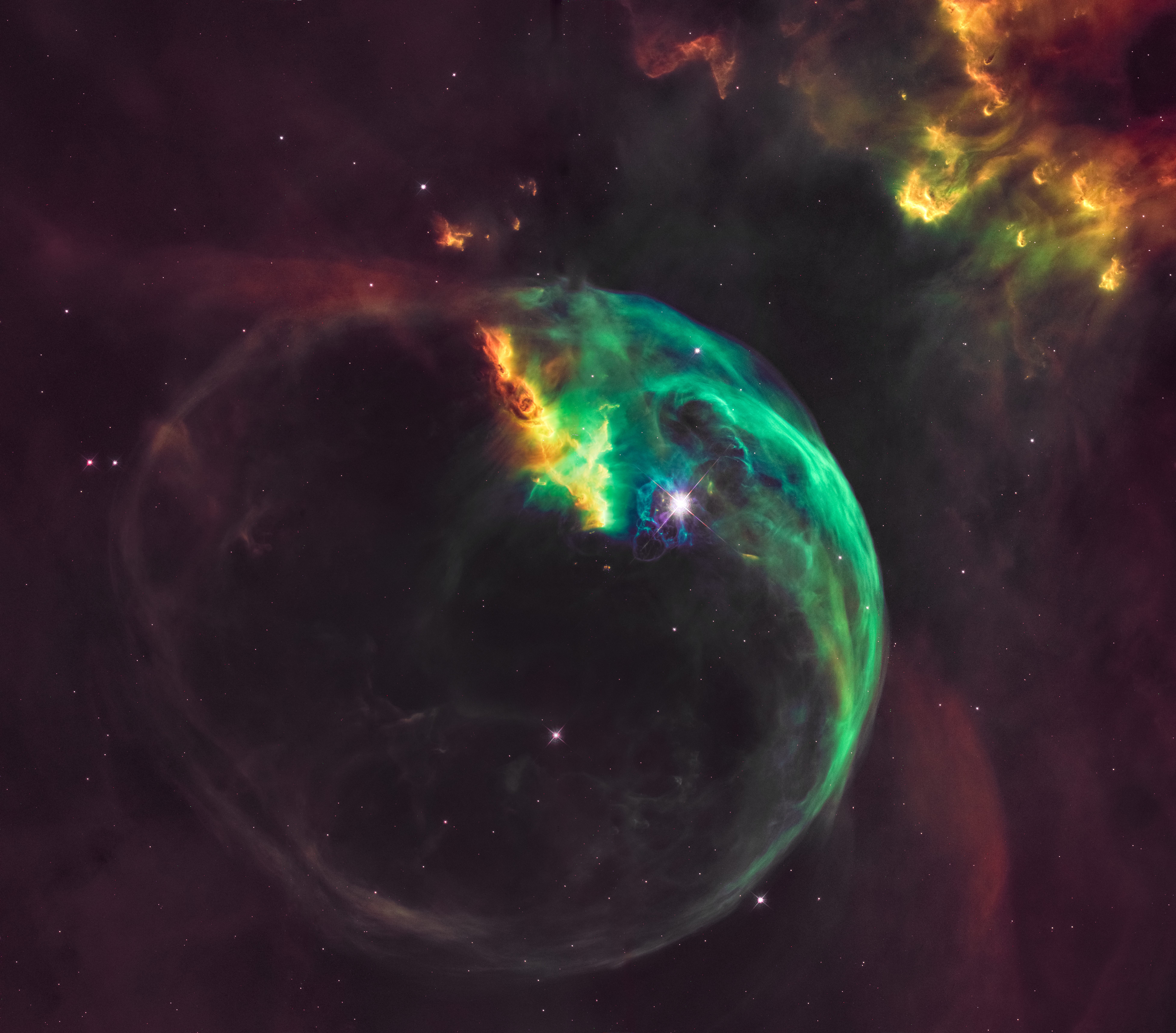 Processed using archived data from the Hubble Space Telescope. Had to adapt some Python scripts I tend to use to get this one to blend properly. Datasets Used: hst_14471_01_wfc3_uvis_f502n_sci.fits hst_14471_01_wfc3_uvis_f656n_sci.fits hst_14471_01_wfc3_uvis_f658n_sci.fits hst_14471_02_wfc3_uvis_f502n_sci.fits hst_14471_02_wfc3_uvis_f656n_sci.fits hst_14471_02_wfc3_uvis_f658n_sci.fits hst_14471_03_wfc3_uvis_f502n_sci.fits hst_14471_03_wfc3_uvis_f656n_sci.fits hst_14471_03_wfc3_uvis_f658n_sci.fits hst_14471_03_wfc3_uvis_total_sci.fits hst_14471_04_wfc3_uvis_f502n_sci.fits hst_14471_04_wfc3_uvis_f656n_sci.fits hst_14471_04_wfc3_uvis_f658n_sci.fits